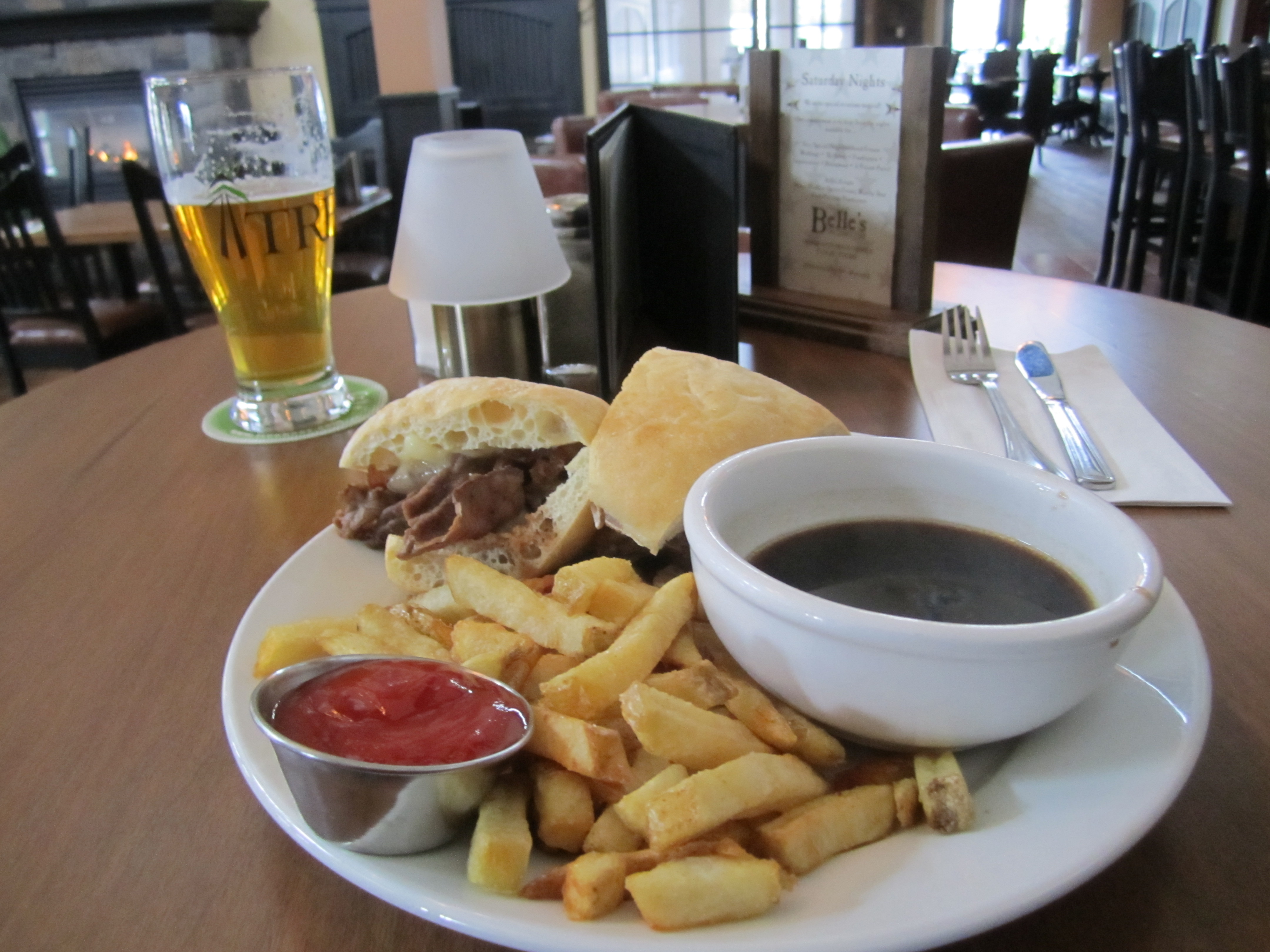 Roast beef dip, french fries, au jus, ketchup, beer and fire in background